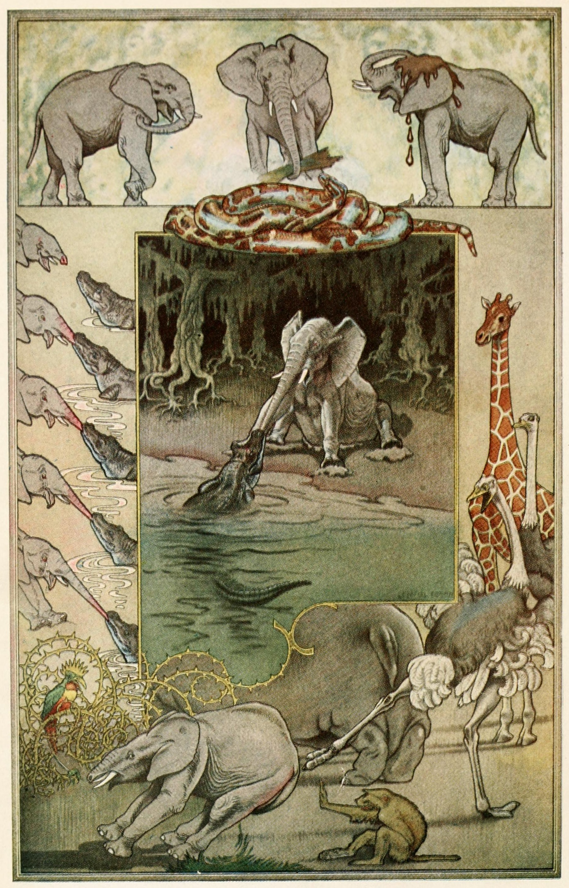 Illustration from a collection of short stories Just so stories (c1912) Garden City, N.Y. : Doubleday & Co., Inc.